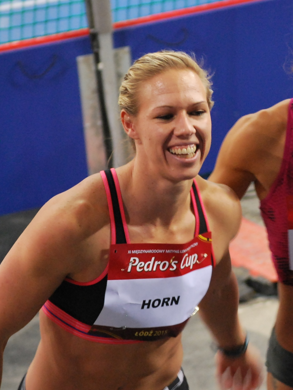 Pedros Cup 2015 Łódź, Carina Horn, sprinter from RSA